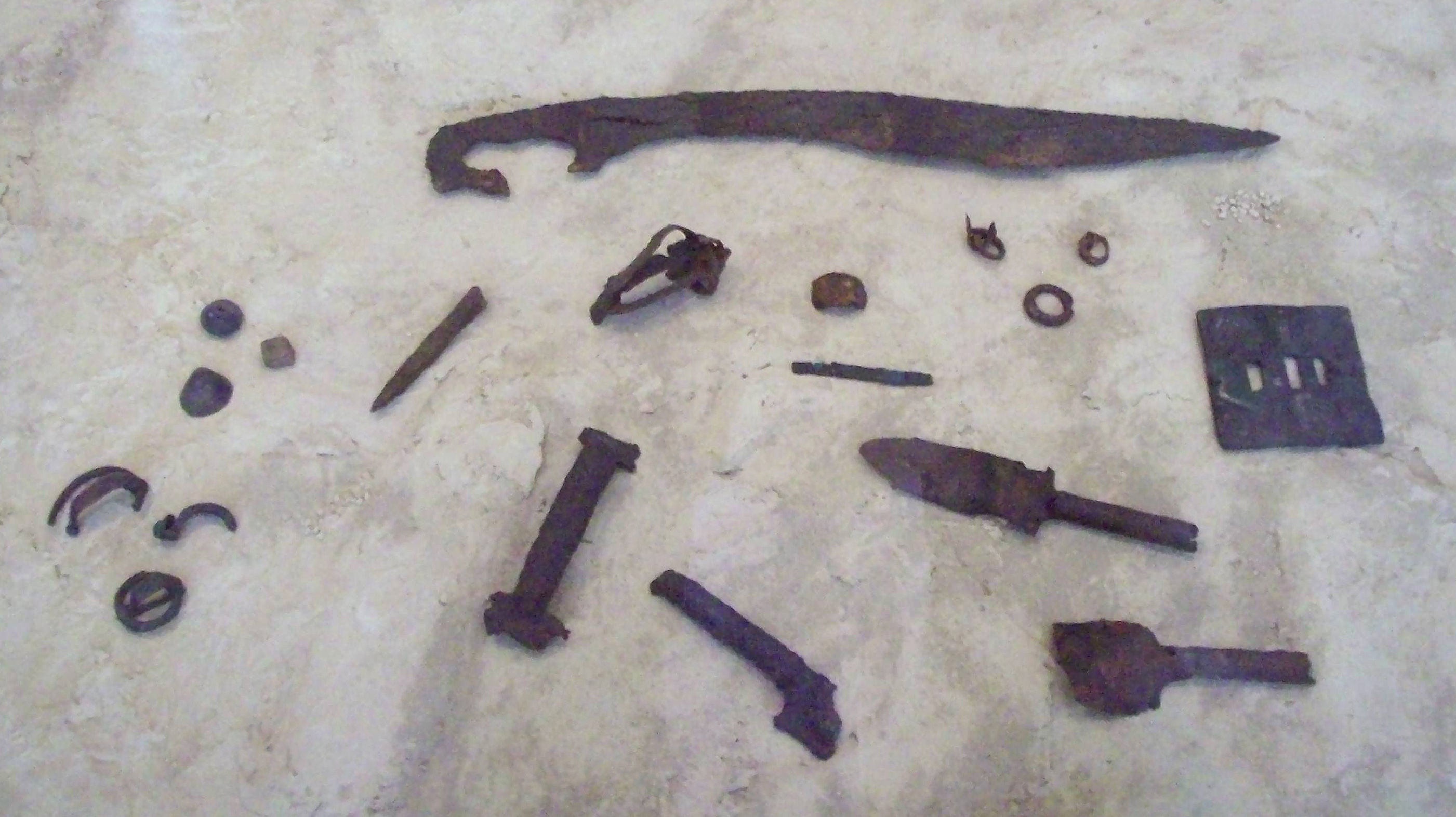 Iberian bronze and iron objects, including a falcata (top). They are part of the funerary equipment of tomb 155 at Necrópolis del Santuario in Baza (Province of Granada, Andalusia, Spain), found on 21 July 1971, where there was also the Lady of Baza.